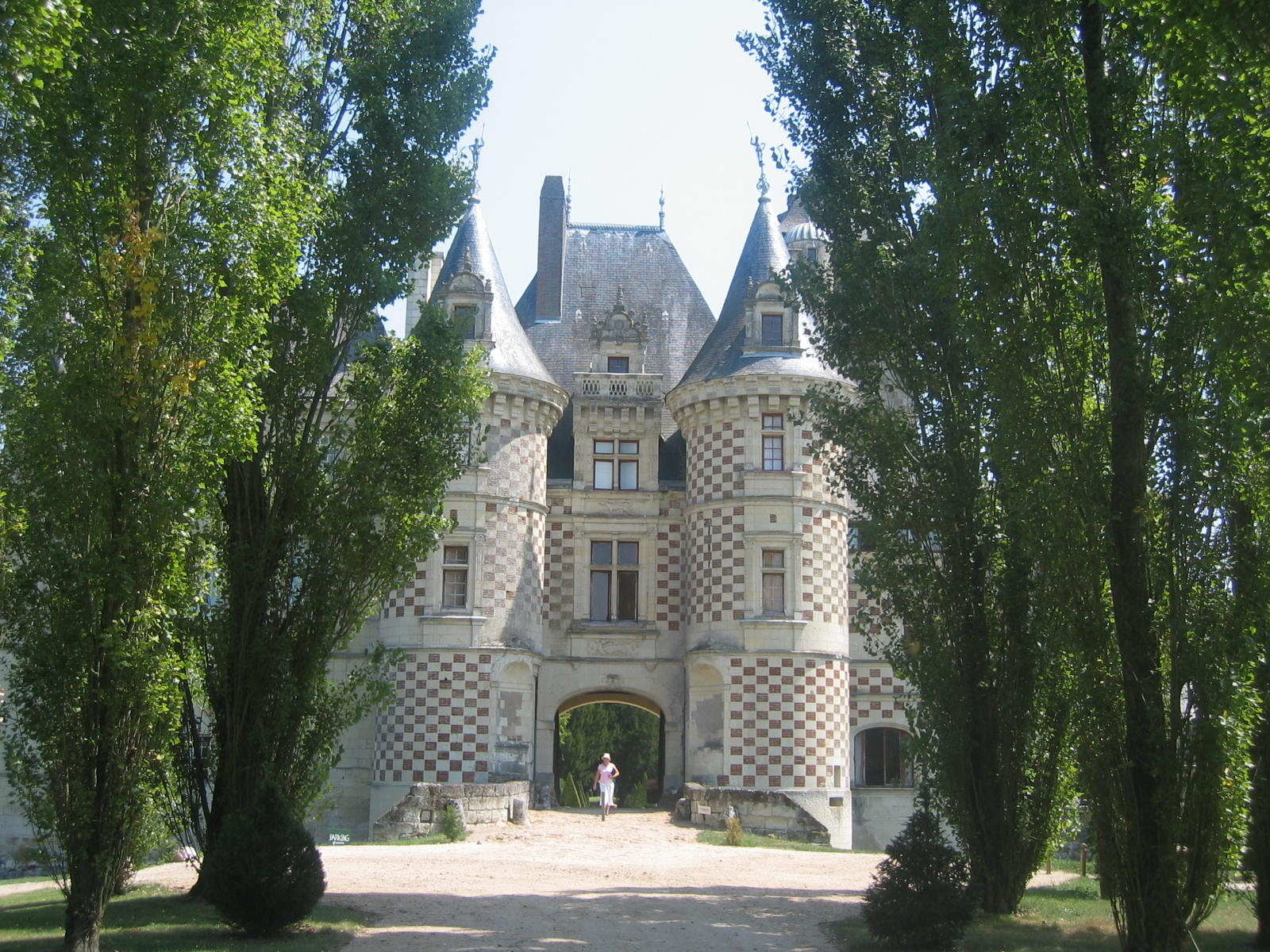 Château des Réaux nearby Bourgeuil